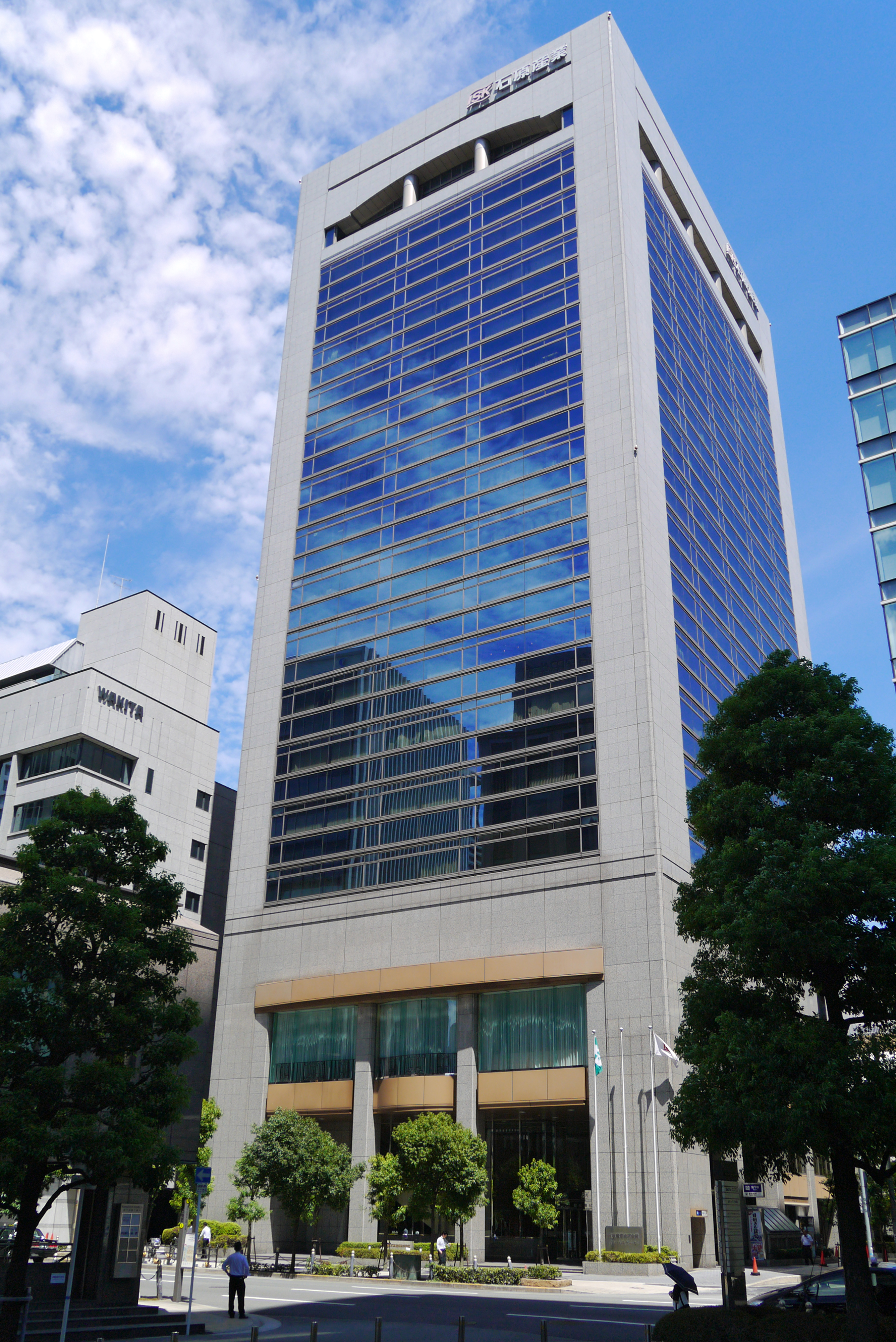 Ishihara Sangyo Kaisha, Ltd. headquarters, Osaka, Osaka prefecture, Japan Panasonic Lumix DMC-GF5